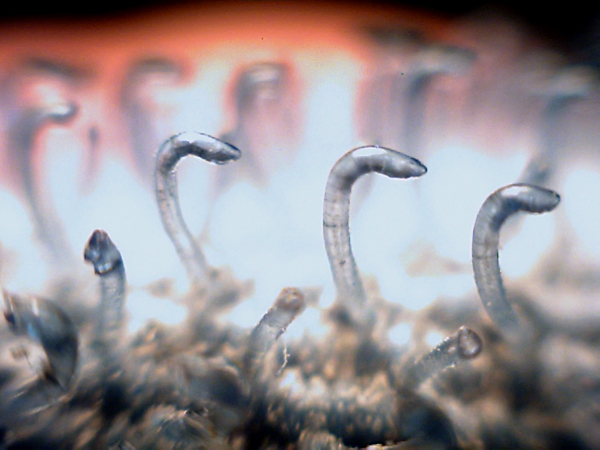 Photograph showing the hooks of a piece of Velcro. Taken using a web camera in macro mode.